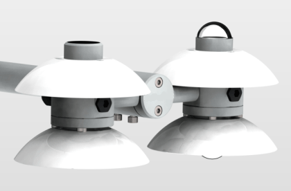 4 component net radiometer (NR01), consisting of 2 pyranometers (right) and 2 pyrgeometers (left)